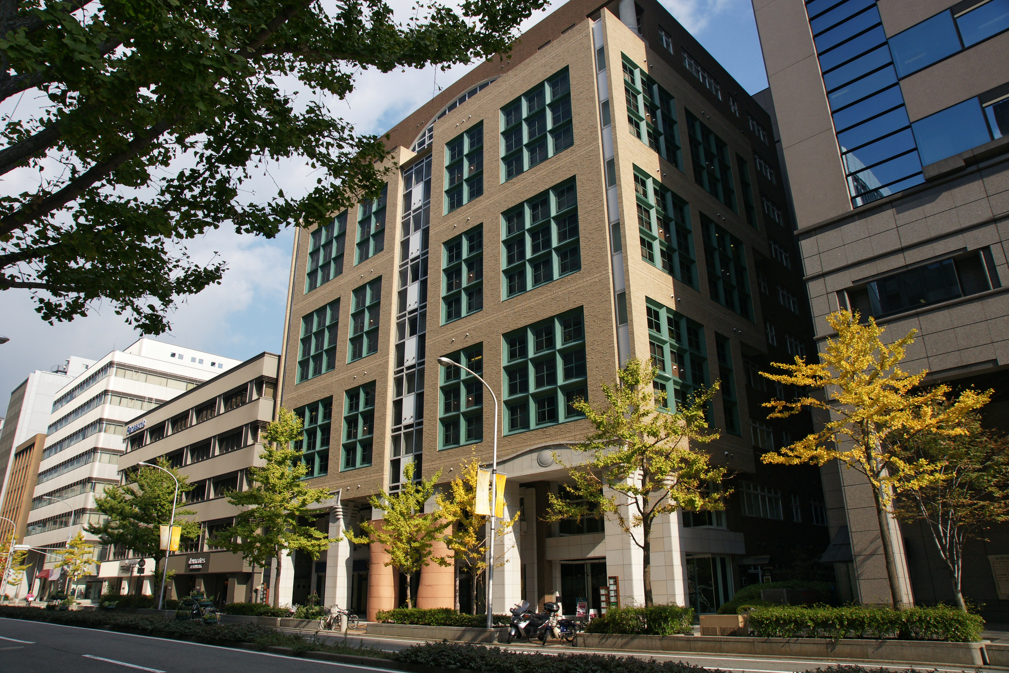 Nihon Building in Kobe, Hyogo prefecture, Japan